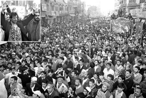 Picture of imran khan giving speech in peshawar .Pakistan Tehreek-e-Insaf. It has been taken by the Administration of who have allowed to use it.